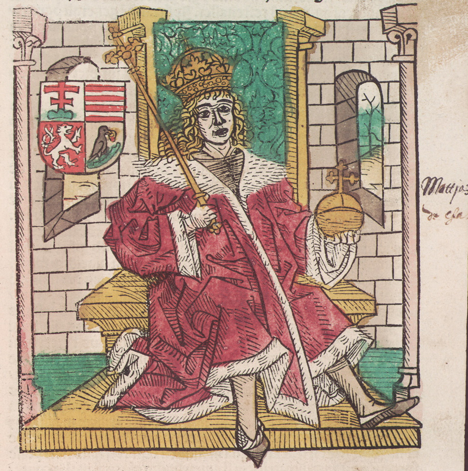 Matei Corvin